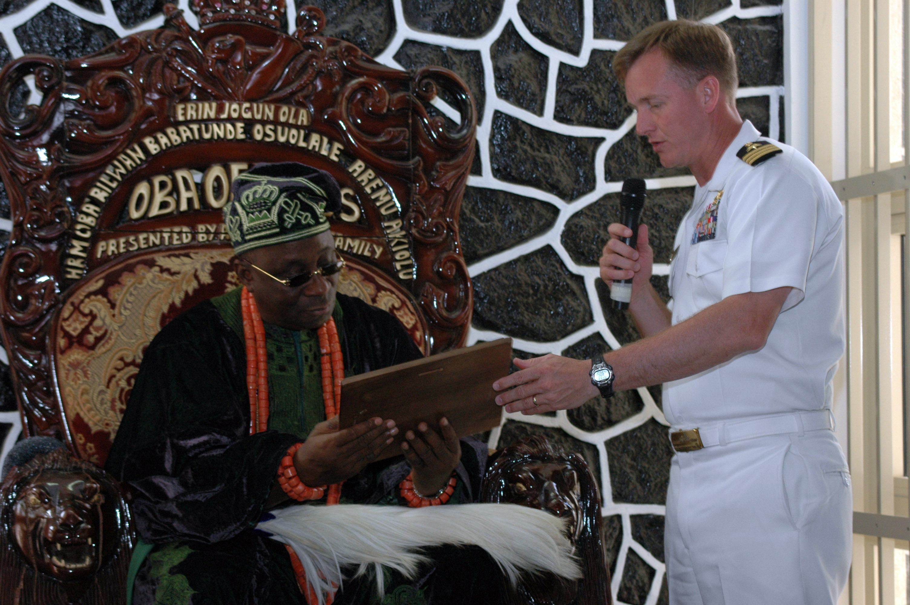 Lagos, Nigeria (June 2, 2006) - Commanding Officer USS Barry (DDG 52), Cmdr. Jeffrey Wolstenholme, presents the Oba Rilwan Akiolu of Lagos, Nigeria, with a ship's plaque during the ship's visit. The Oba is a spiritual leader in Nigerian culture with the respect of royalty. While in port, USS Barry will participate in events celebrating the 50th anniversary of the Nigerian Navy. The port visit and participation in the "Golden Jubilee” is the latest in a series of engagements involving several Gulf of Guinea nations designed to strengthen enduring and emerging partnerships and support maritime safety and security measures. U.S. Navy photo by Journalist 1st Class Kurt Riggs (RELEASED)